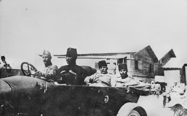 An informal portrait of Jemal Pacha (rear seat, left side of car, with beard) and Musir (Field Marshal) Ahmet Izzet Pasha (rear seat, right side of car), seated in the back seat of a motor car, possibly leaving Damascus prior to the entry of the British. The soldier in the front passenger seat is Jemal Pacha's Circassian bodyguard. Jemal (or Djemal) [Ahmet Cemal Pasa] was one of three Pashas, the others being Enver and Talat, who ruled the Ottoman Empire from 1913 to the end of the First World War. Jemal was in charge of the Ottoman Army in Egypt. With the defeat of the Empire in 1918 he, along with seven other leaders of the Committee of Union and Progress (CUP), fled to Germany then Switzerland. In his absence, he was charged with persecuting Arab subjects of the Ottoman Empire and was found guilty in absentia. He was assassinated, by an Armenian in Tbilisi on 21 July 1922, due to his imvolvement in the Armenian genocide. Ahmed Izzet Pasha, born in 1864, had been commander on the Caucasus front. He was appointed Grand Vizir, replacing Enver and Talat, when the new Sultan Mehmet VI came to the throne on 3 July 1918. He negotiated the Armistice which ended the war in the Middle East, and took a major role in the Turkish War of Independence. He took the family name Furgac following the abolition of the Caliphate. He died in 1937. This is one of a series of photographs, probably taken by a Turkish official photographer, collected by 2120 Private (Pte) Murtie Cecil Carlian, 14th Light Horse.